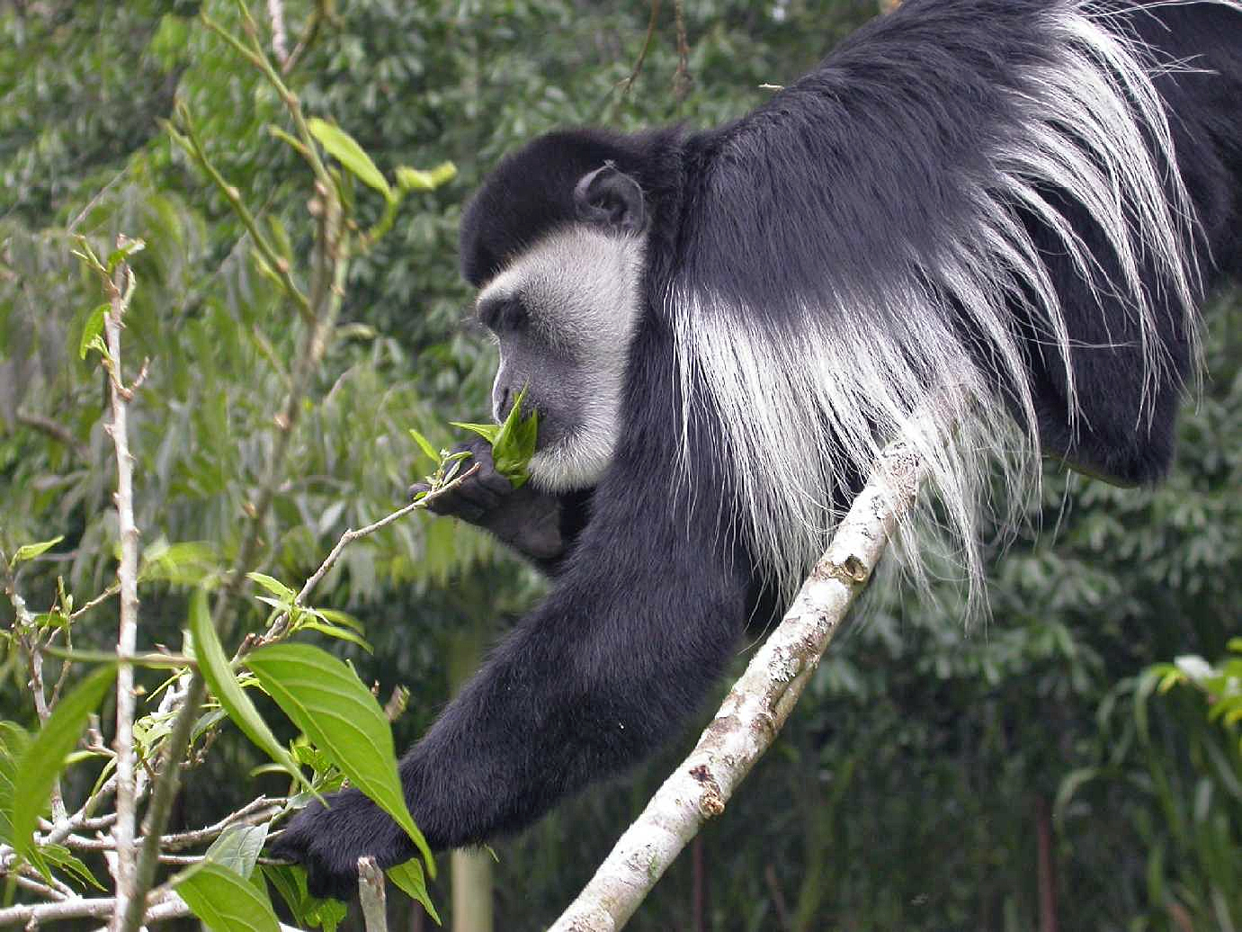 Guereza Colobus (Colobus guereza), Kibale national Park, Uganda .